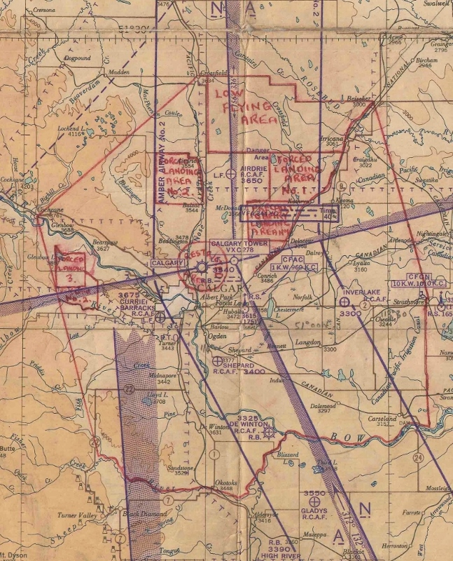 A fragment of the Banff-Bassano navigation chart used by members of the Royal Canadian Air Force in the area of Calgary, Alberta, Canada. Air Navigation Edition, 24 March 1944. The small purple circles mark the location of RCAF airfields used in the British Commonwealth Air Training Plan. In alphabetical order they are Airdrie, Calgary (McCall Field), Currie Barracks, De Winton, Gladys, High River, Inverlake, and Shepard. The marks and notes in red ink were made by an airman in 1944.